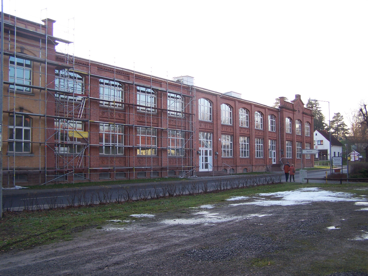 The main building of the PETKUS factory (2008 - under construction).